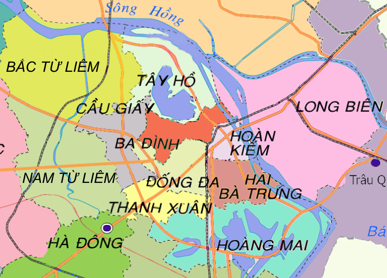 Map of Urban Districts of Hanoi only